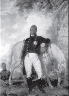 Prince Jacques-Victor Henry (Henri Christophe's Son)